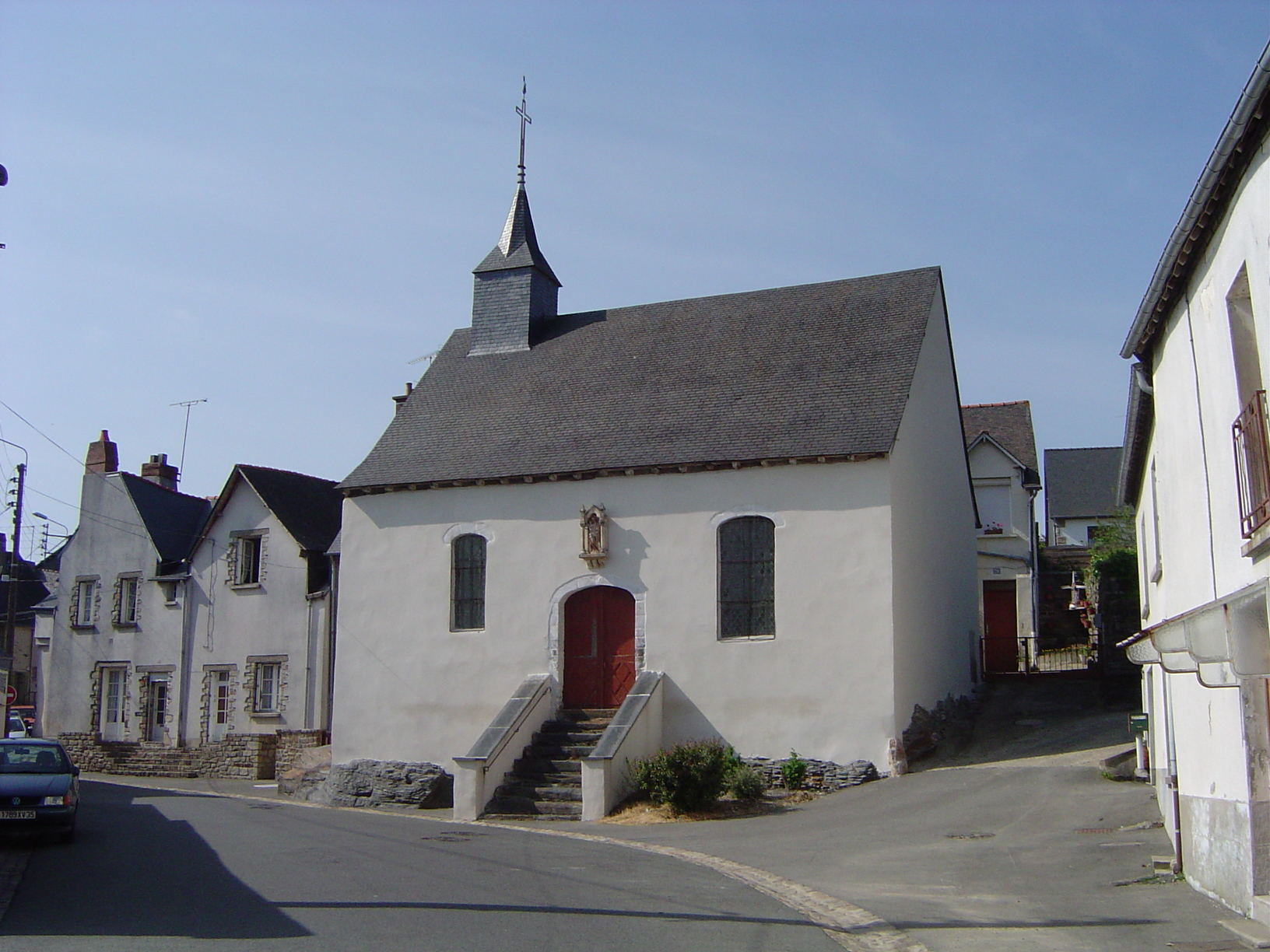 Trois-Marys Chapel in Rachapt neighborhood